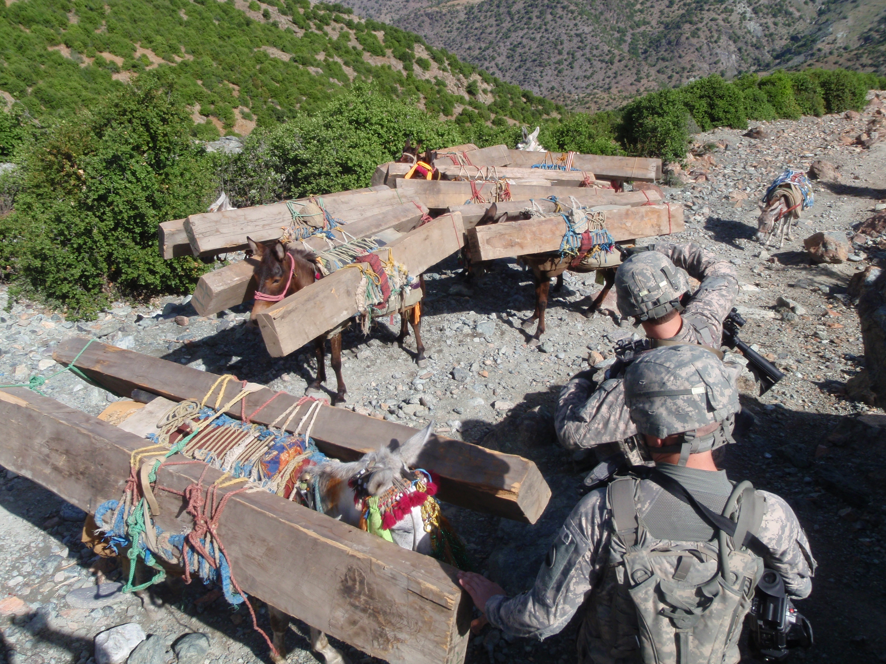 Soldiers of 1st Battalion, 32nd Infantry Regiment, intercept illegal timber as it is smuggled through the Narang Valley in Afghanistan’s Konar province. Donkeys are the primary way that timber smugglers are able to export the timber without detection over the rough terrain of the Afghanistan-Pakistan border. Read more of Soldiers disrupt timber smuggling in Afghan provinceat